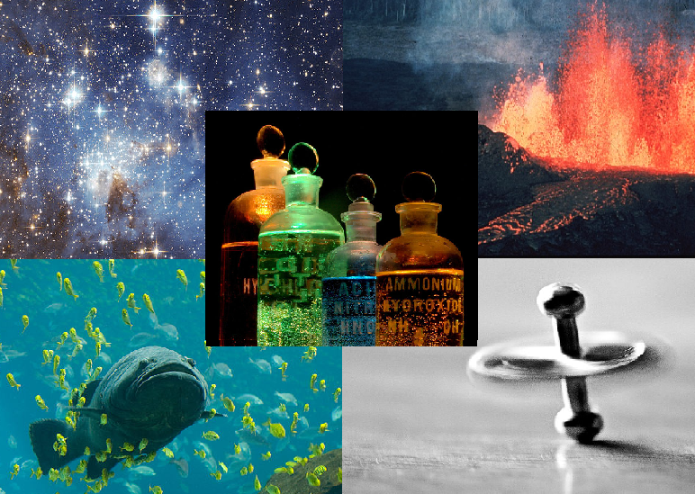 A montage displaying the five major branches of natural science: Chemistry (represented by the center image of flasks containing chemicals), Astronomy (top left picture of stars), Earth Science (top right picture of erupting volcano), Physics (bottom right picture of spinning top), and Biology (bottom left picture of fish).